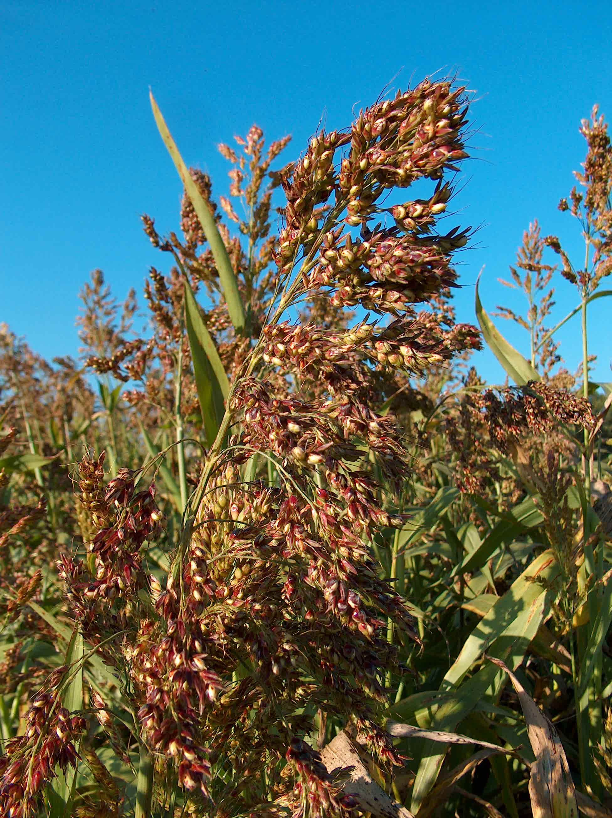 "Sudan grass"